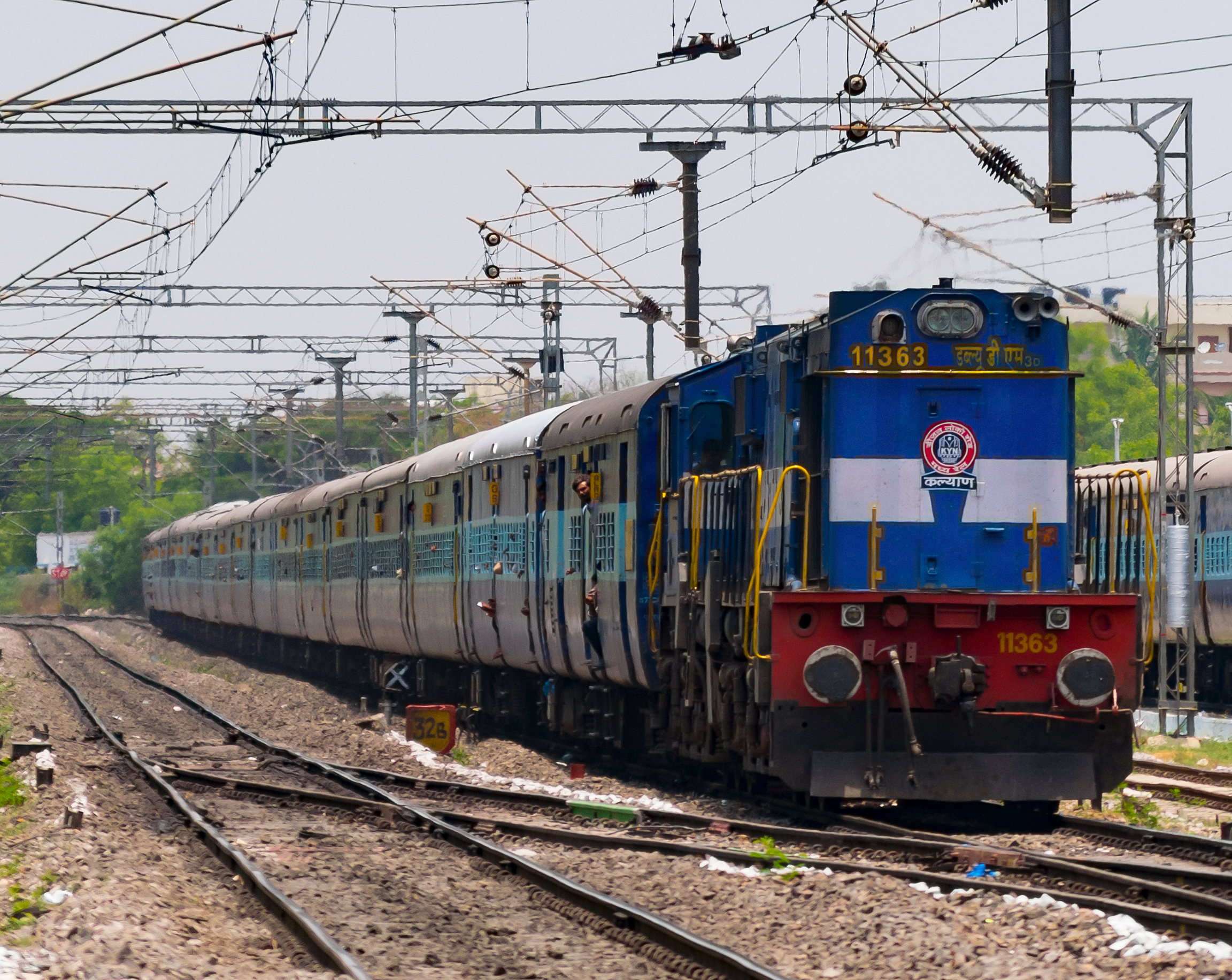 12701 Hussain Sagar Express near Lingampally